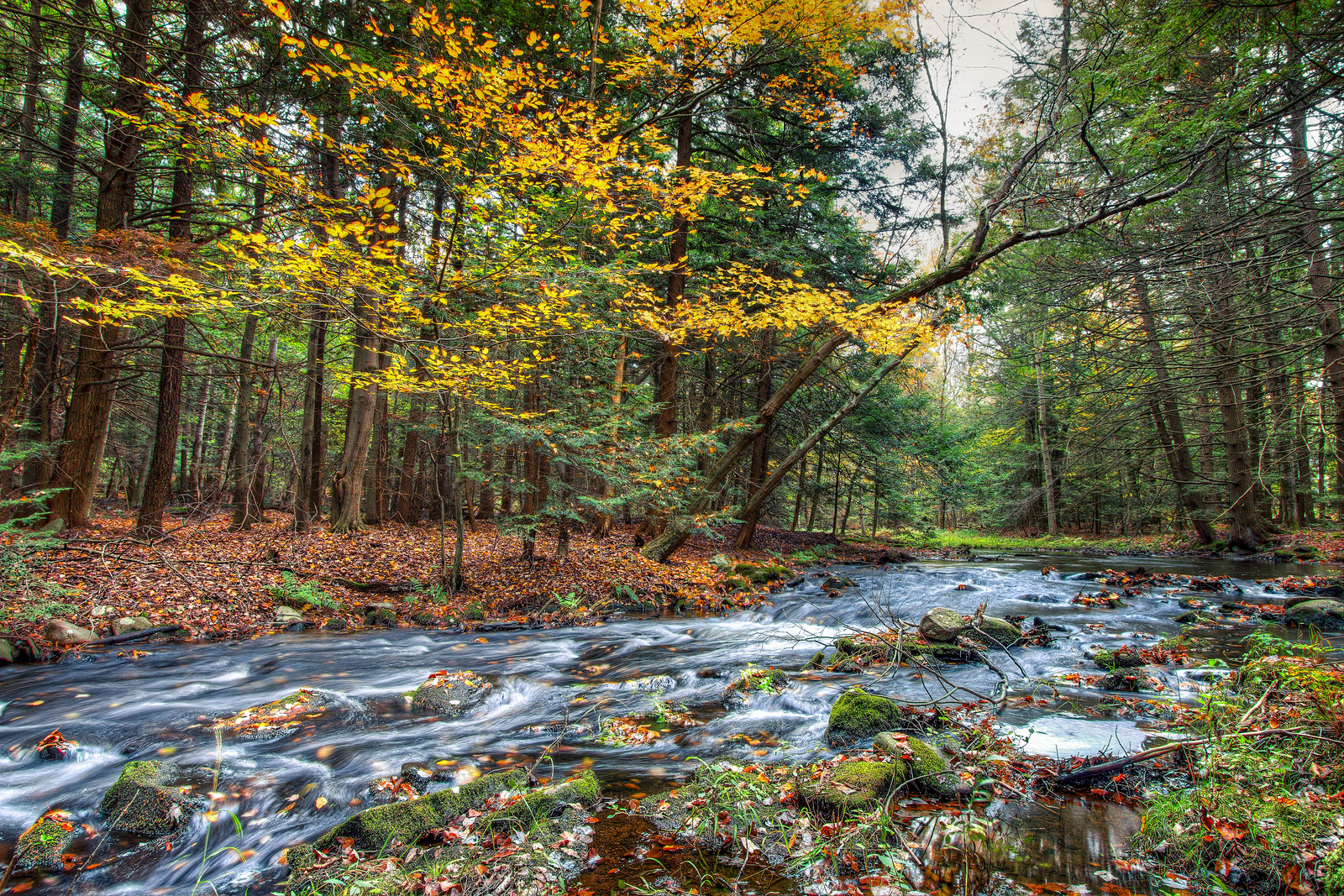 Near the town of Rock Hill in Sullivan County, NY